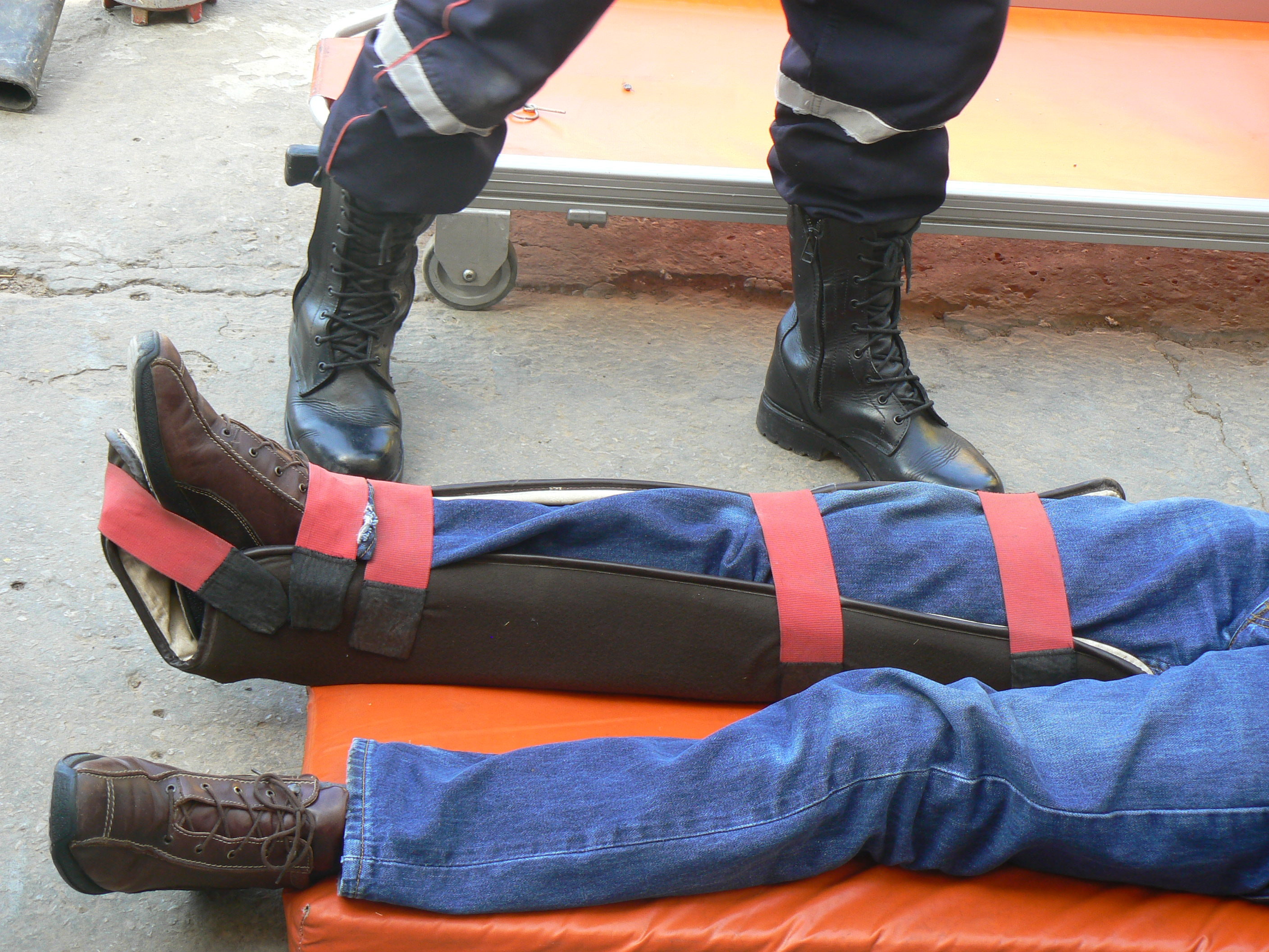 Algerian Working first aid - firefighters This is an image of "African people at work" from Algeria